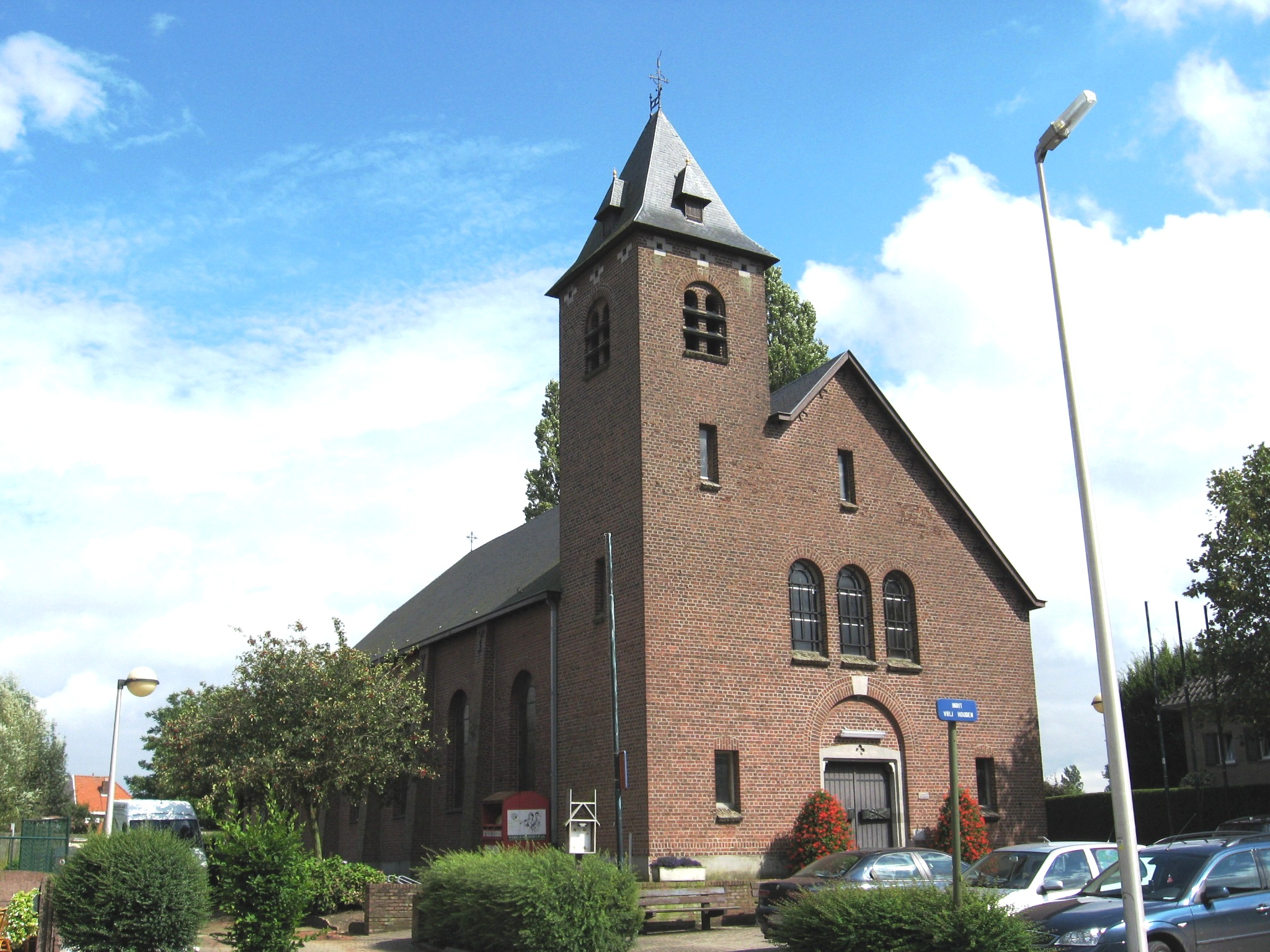 Church of Saint Adrian (1926) in Hoelbeek, Bilzen, Limburg, Belgium